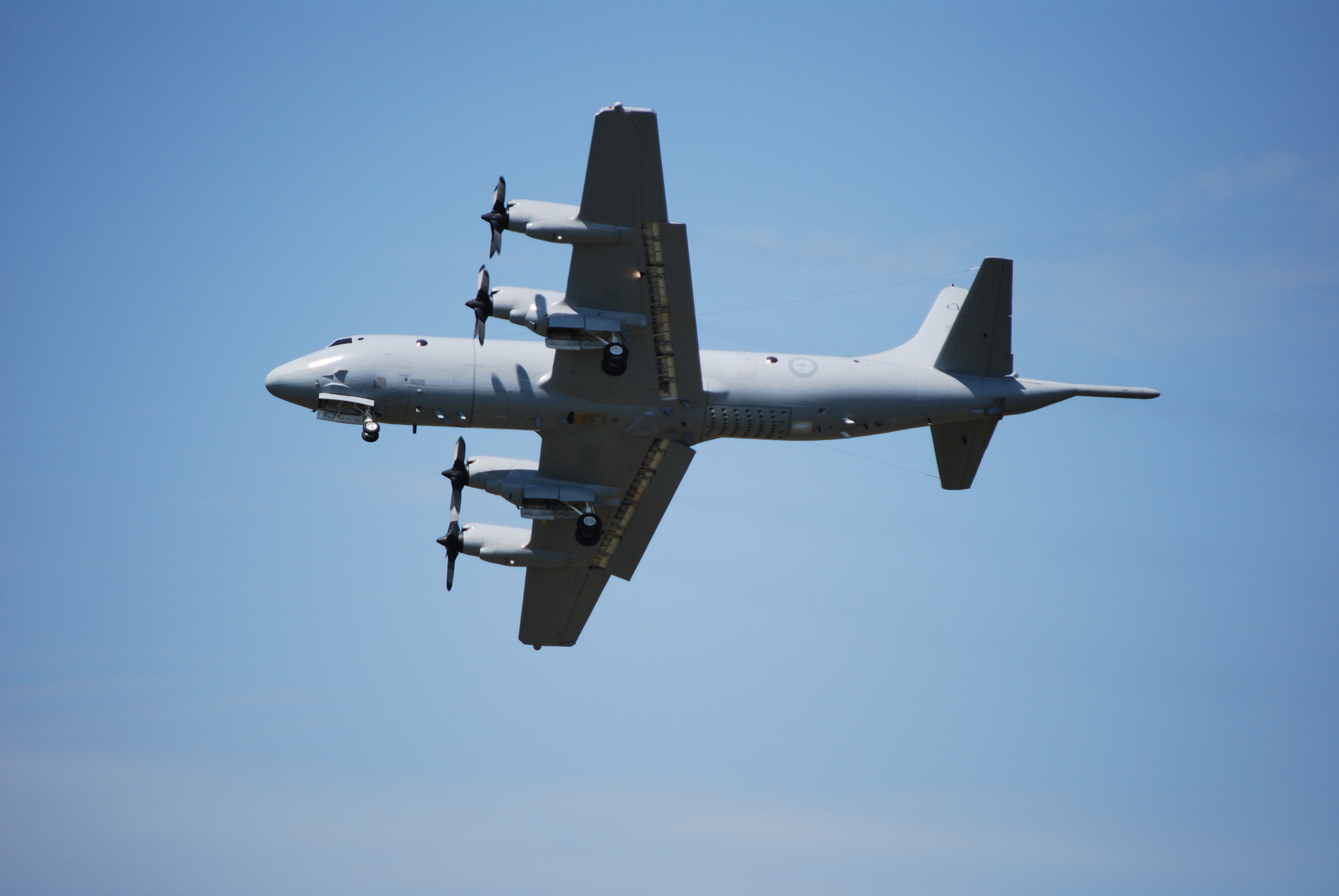 An Australian AP-3C Orion at the 2008 Amberley Air Show